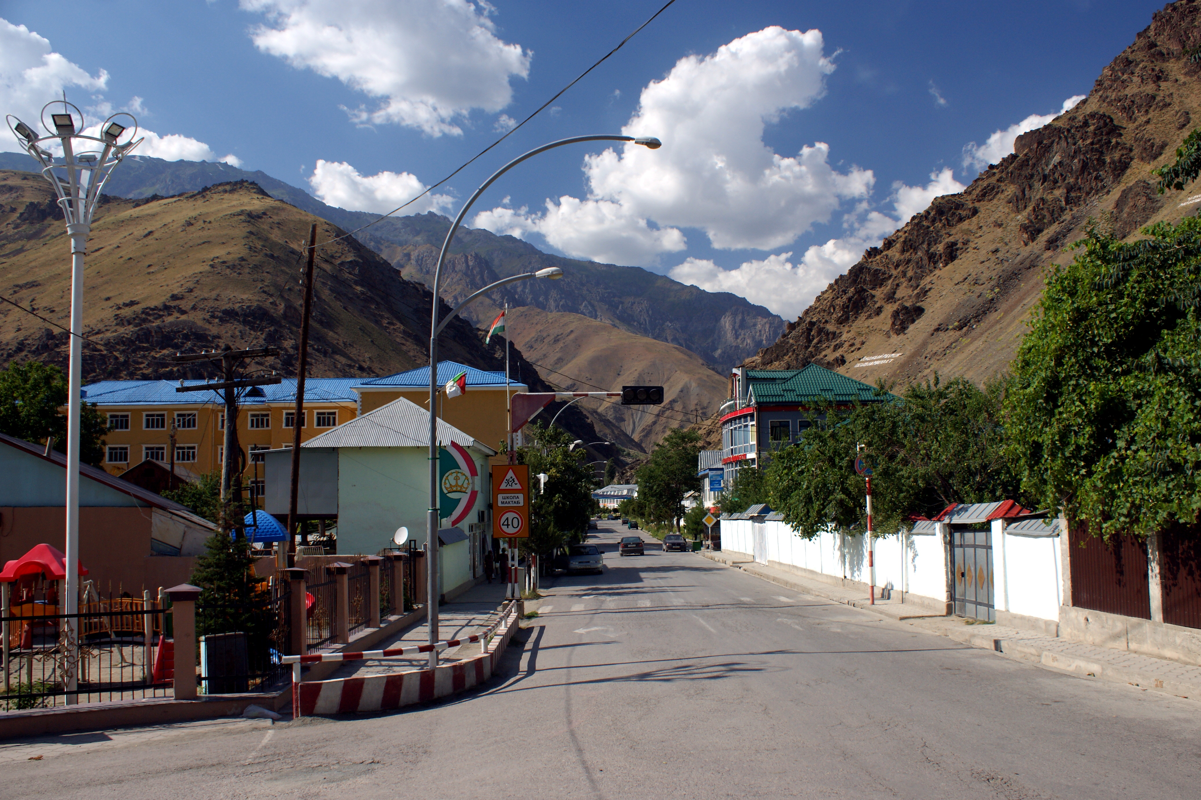 Qal'ai Khumb main road (view towards west)